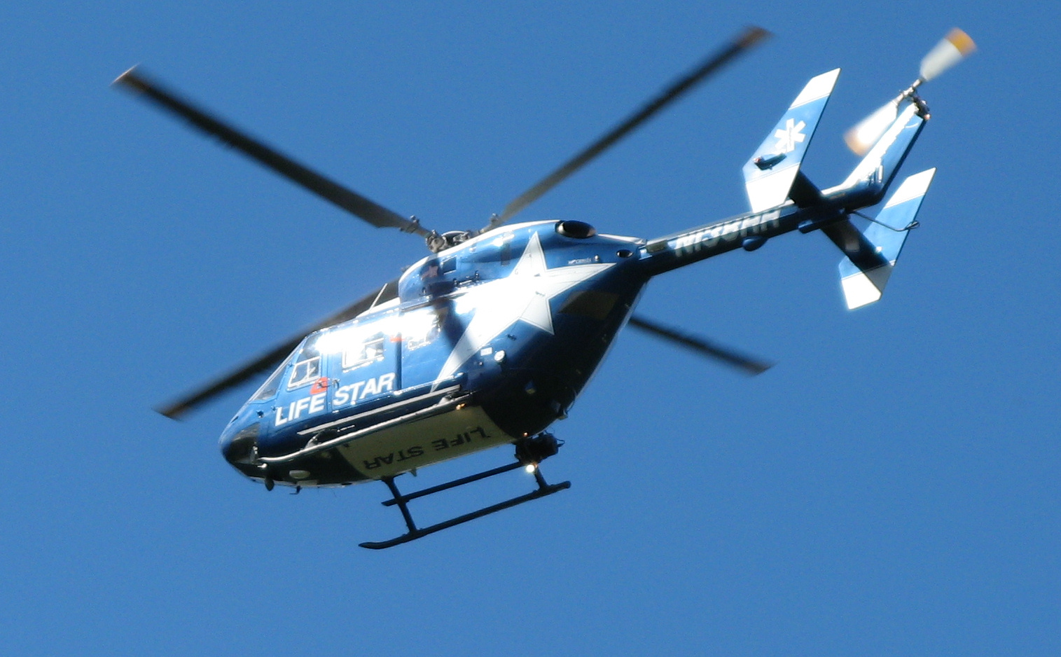 Image of Hartford Hospital's LifeStar Air ambulance taking off from the scene of a car accident in Glastonbury, Connecticut, USA